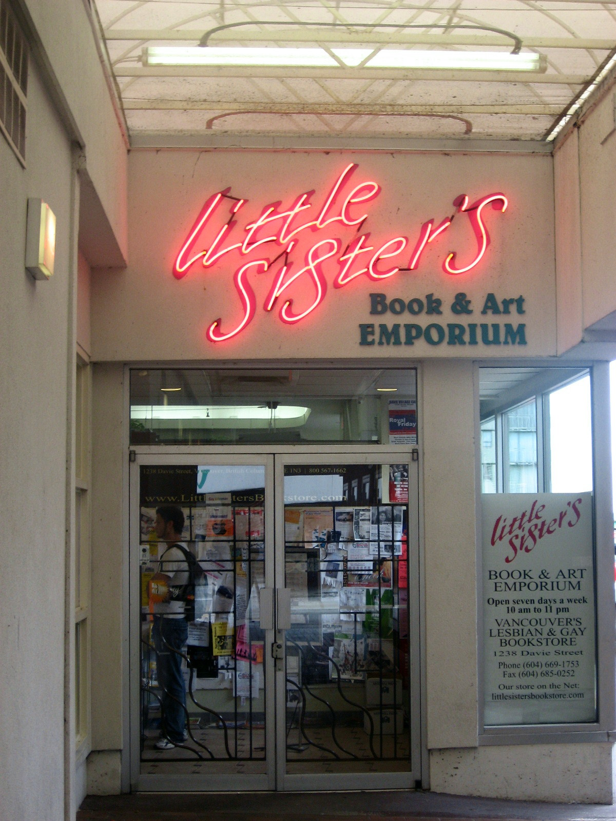 Main entrance of Little Sister's Book and Art Emporium, Vancouver BC, Canada. Taken June 2006.